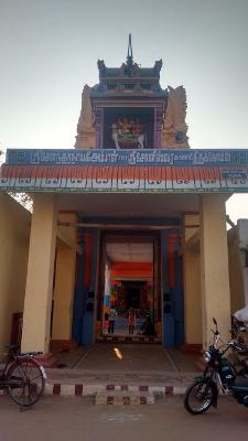 Vallam cholisvarar temple வல்லம் சோளீசுவரர் கோயில்